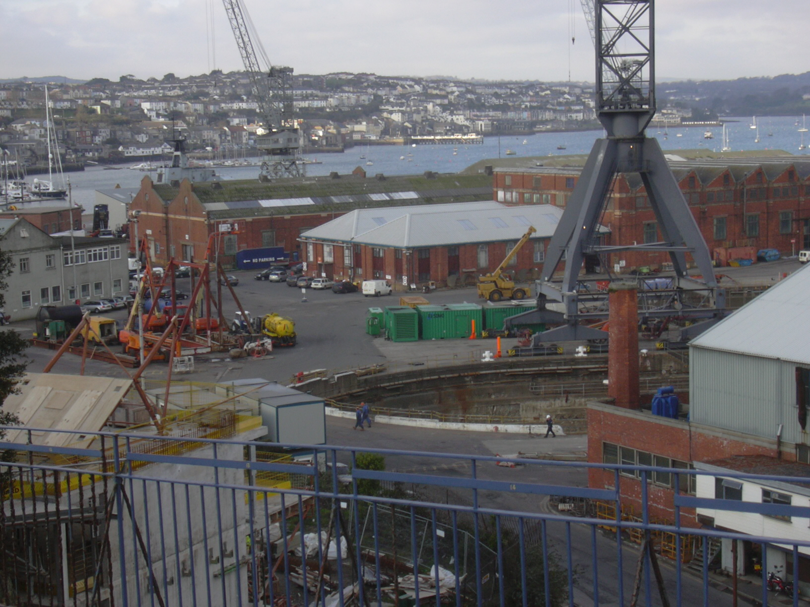 Falmouth Docks -with view of the Town